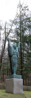 Statue marking the gravesite of Isaac Wolfe Bernheim in the "Bernheim Arboretum and Research Forest."